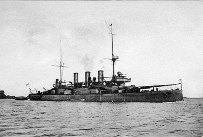 The Swedish coastal defence ship Oscar II in her original appearance.